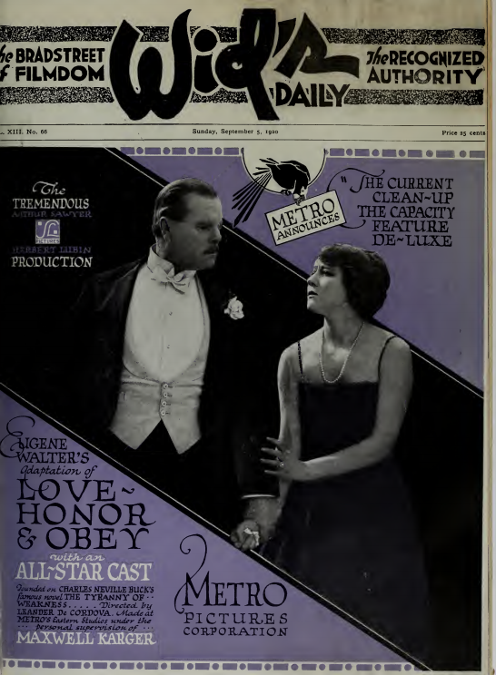 Ad for the film Love, Honor and Obey (1920) directed by Leander de Cordova.